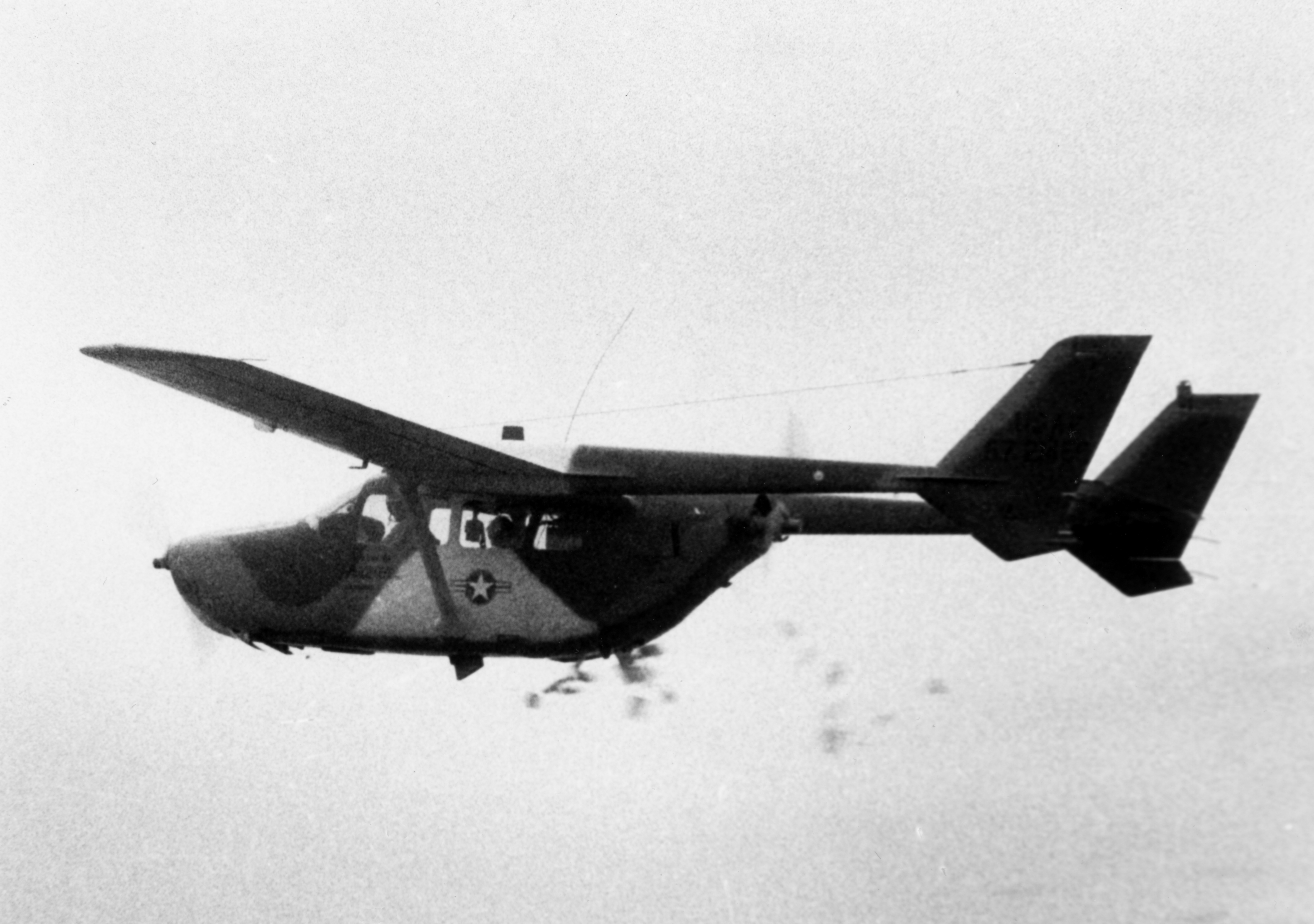 Side view of a U.S. Air Force O-2 of the 9th Special Operations Squadron dropping Chieu Hoi leaflets over the Republic of Vietnam.